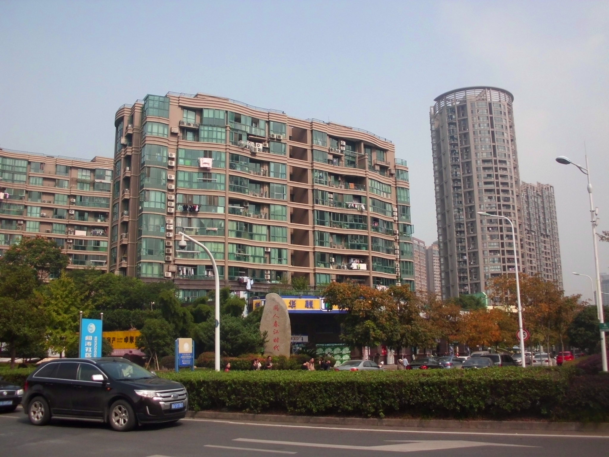 Residential buildings in Binjiang District